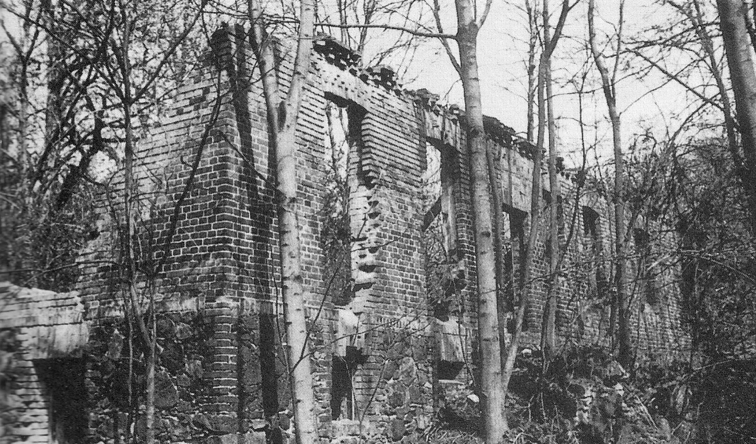 Ruin of the former Blabbermühle (water mill) in Görsdorf. Görsdorf is a part of the municipality Tauche in the District Oder-Spree, Brandenburg, Germany.